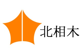 Flag of Kiaiki Nagano